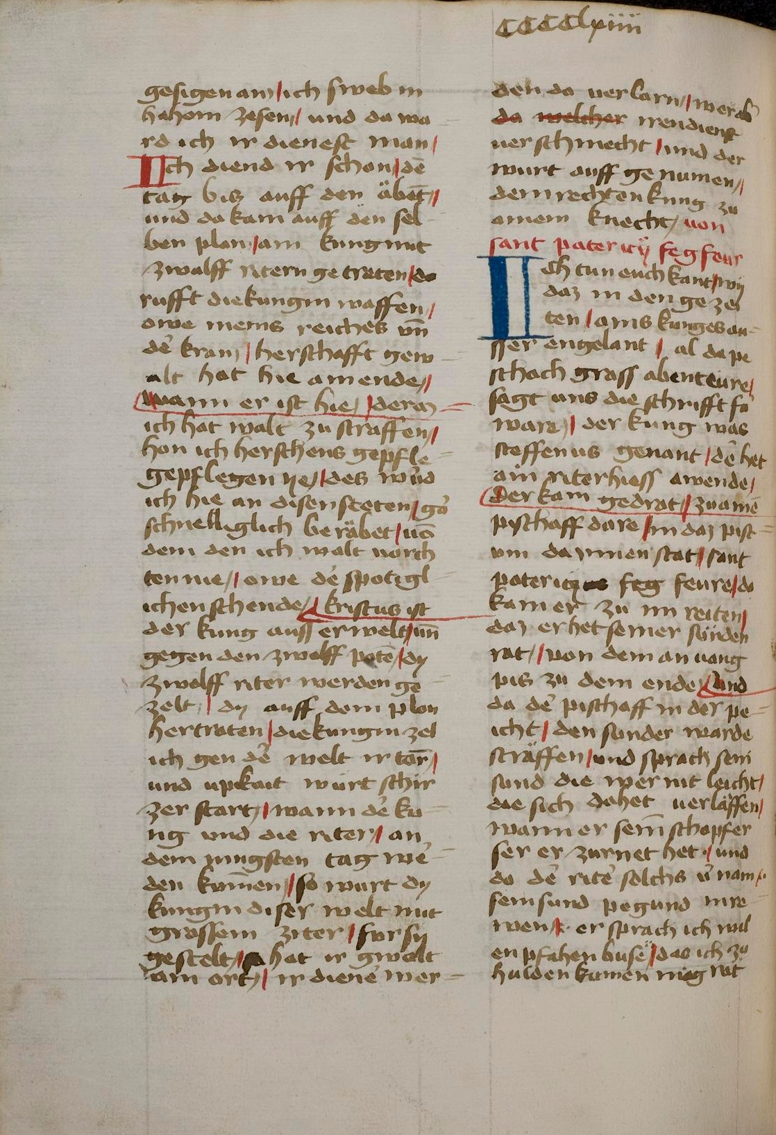 Begin of the song von Sant Patericÿ fegfeur (translated: About Saint Patrick's Purgatory) by Michel Beheim, probably in his own handwriting, at the right colum, blue initial "I". This is folio 438v of the manuscript cpg 334 of University Library Heidelberg. The song starts as follows: Ich tun euch kant, wÿ daz in den gezeiten ains kunges ausser Engelant al da peschach grass abenteüre, sagt uns die schrifft fur ware. der kung was Steffenus genannt. der het ain riter, hiess Awende. (Transcription taken from p. 304 out of Hans Gille and Ingeborg Spriewald: Die Gedichte des Michel Beheim, Band III/1 Gedichte Nr. 358–453: Die Melodien. Akademie-Verlag, Berlin 1971.)